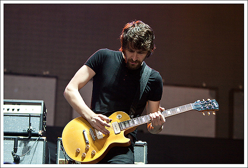 Aidan Nemeth playing a Gibson Les Paul.